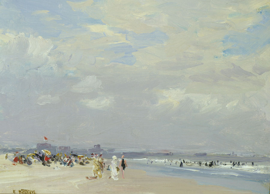 Rockaway Beach by Edward Henry Potthast, circa 1910, oil on canvas, 12 x 16 inches